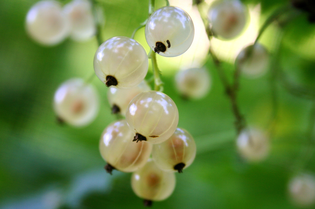 Closeup of White Currant (Ribes sativum) berries